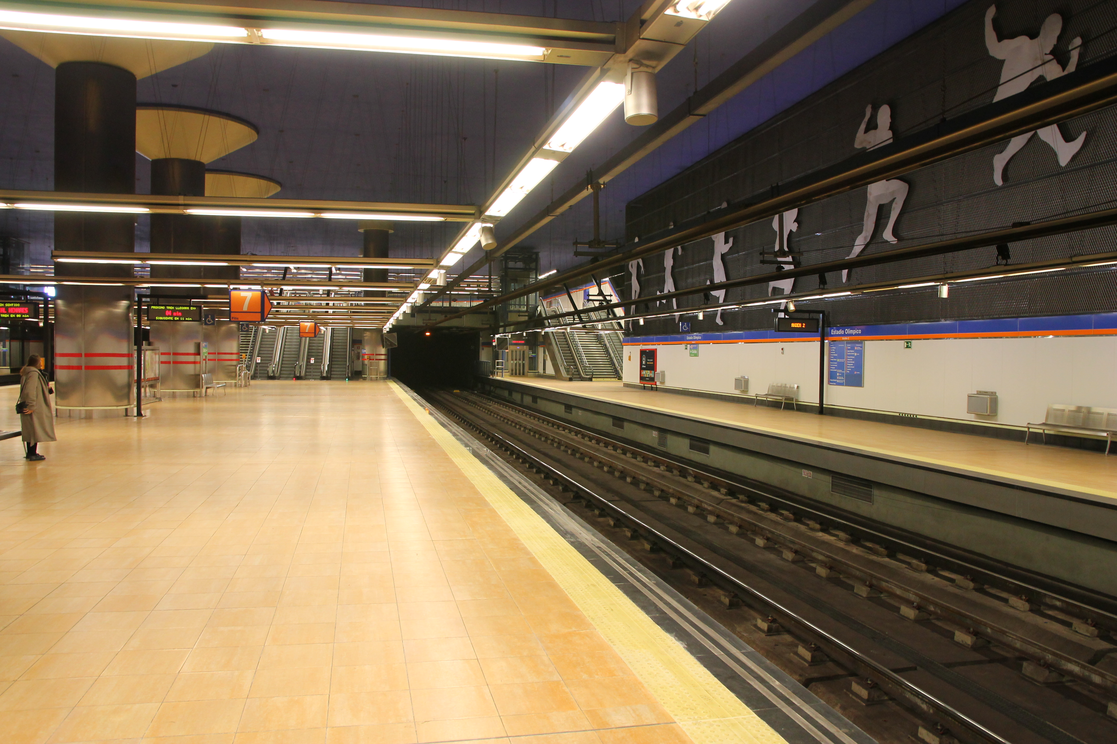 Estación de Estadio Metropolitano